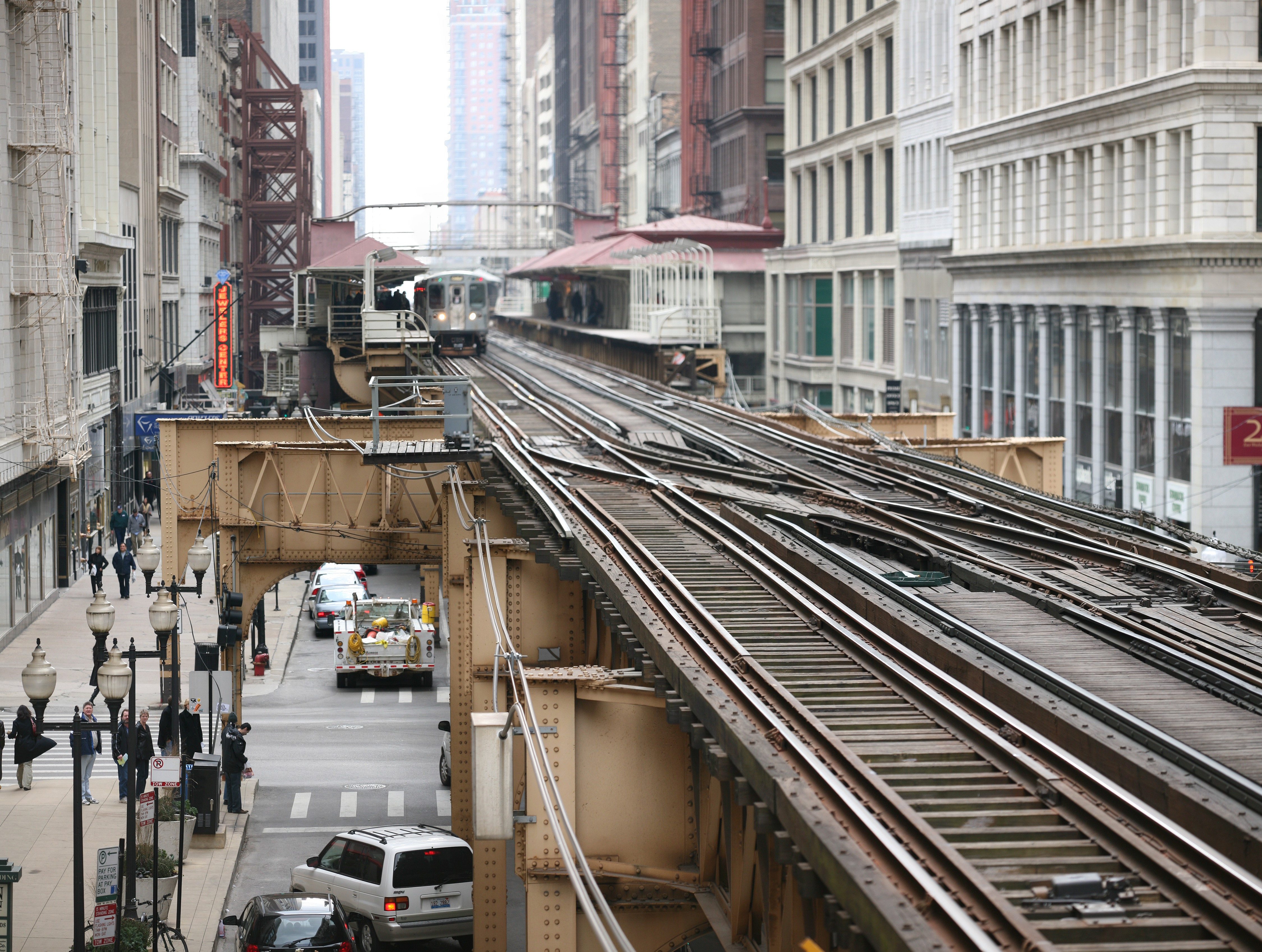 Elevated tracks in the Chicago Loop. This image was created with Hugin.